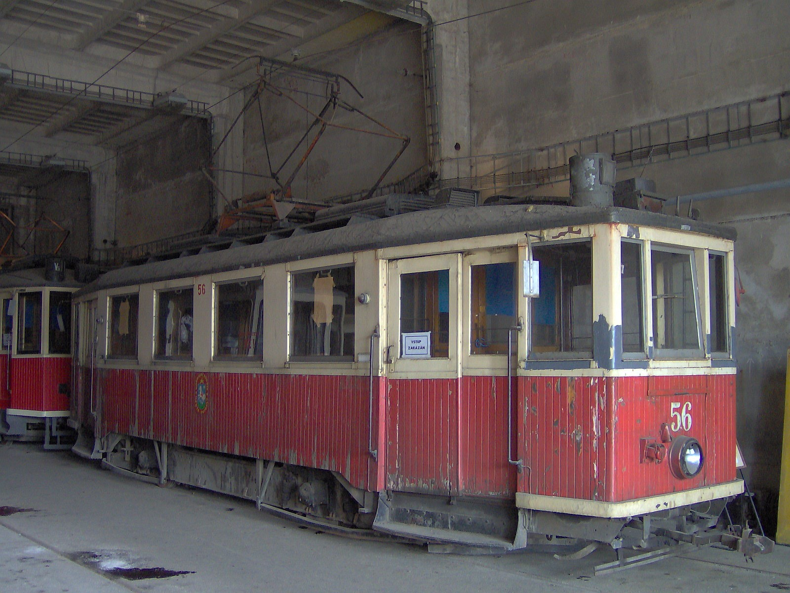 Historical tram No. 56 from Ostrava in Brno, Czech Republic